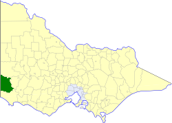 Location of the former Shire of Glenelg within Victoria.